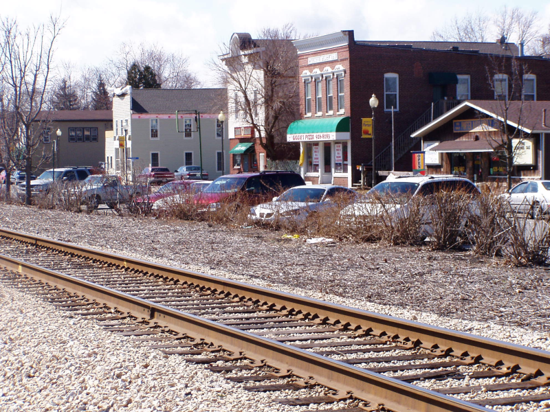 Main Street in Porter